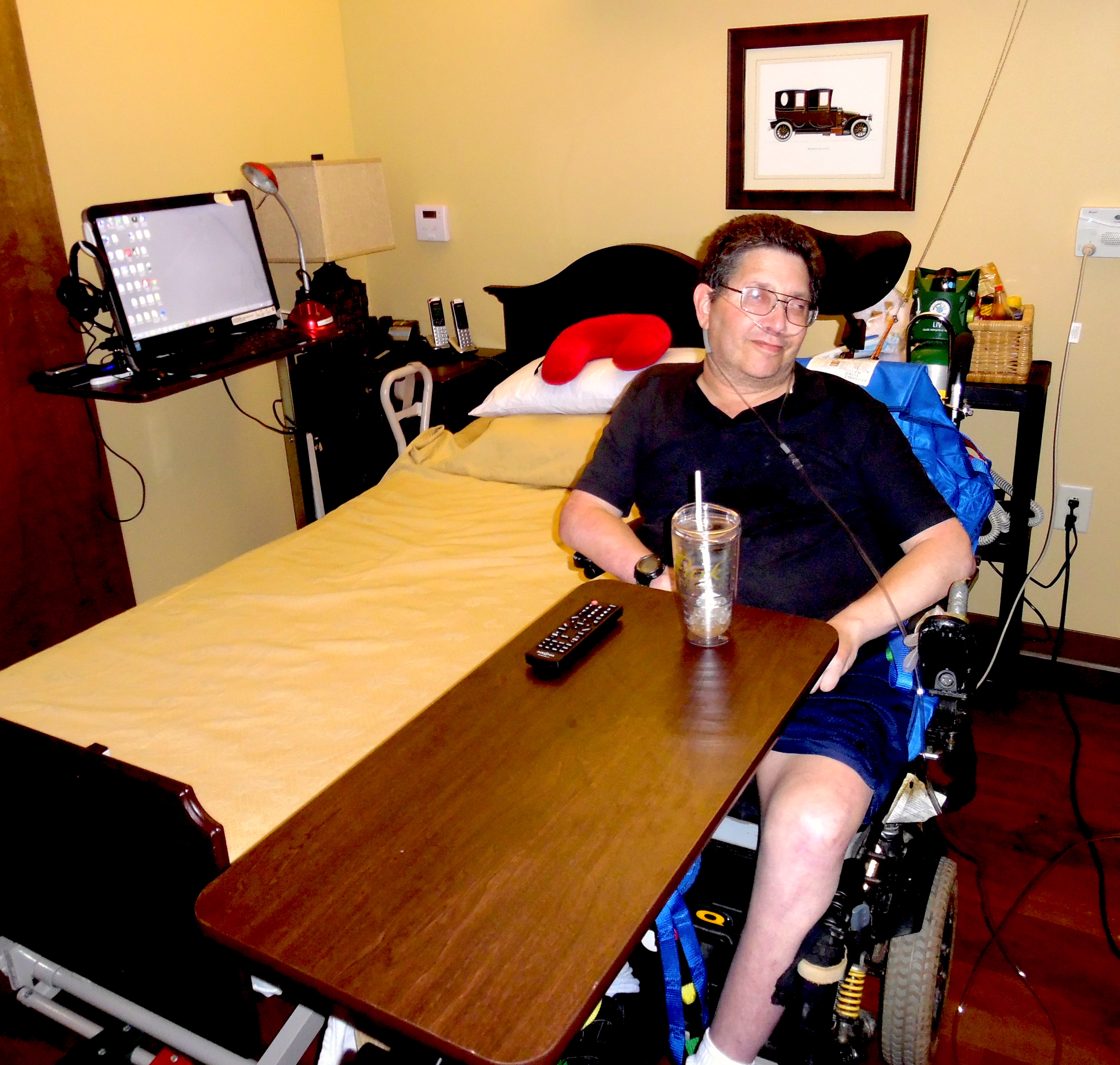 Ross Greenberg in his room at the Chelsey Park Health and Rehabilitation Center, Dahlonega, Georgia